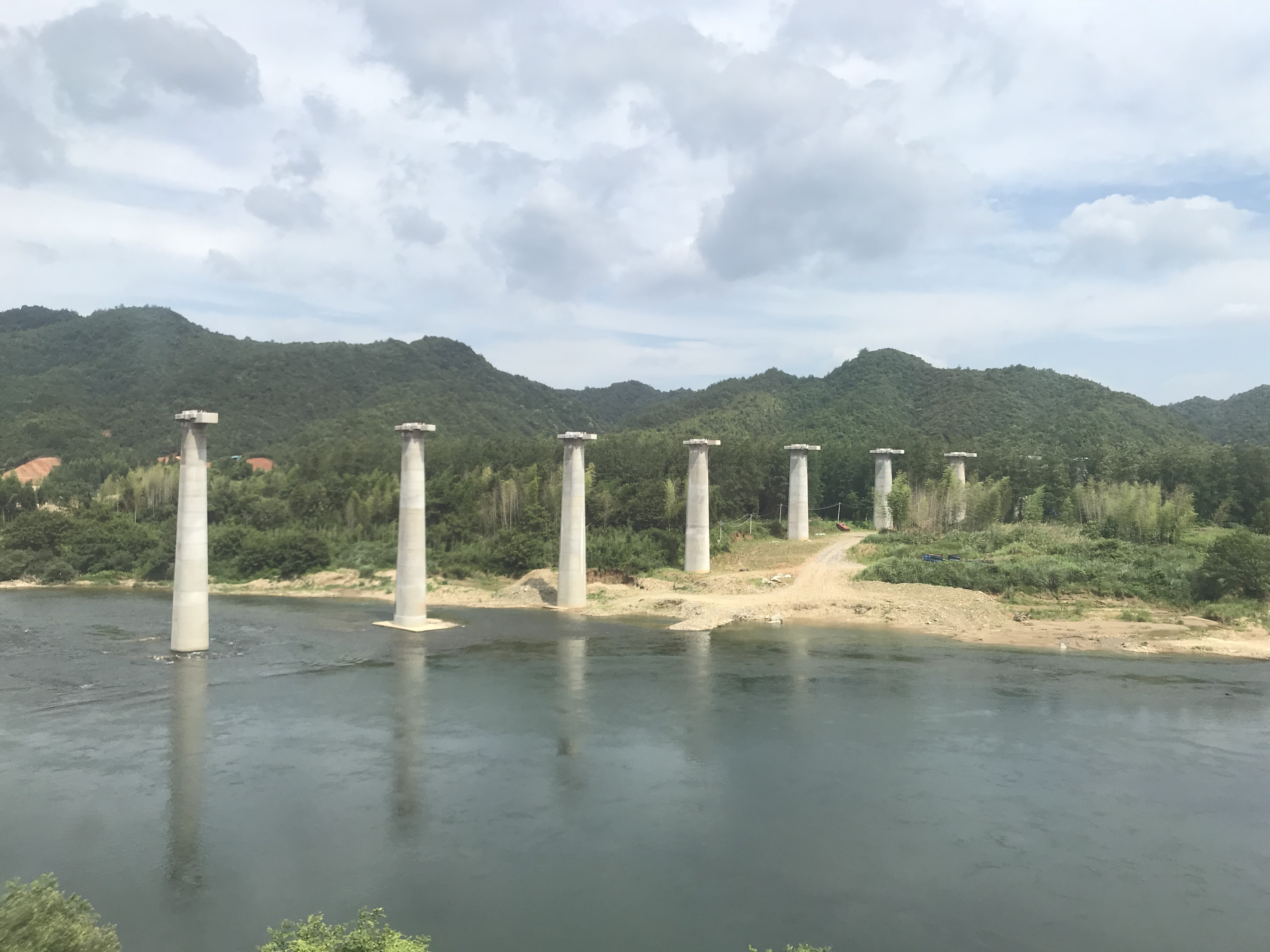 201806 Bridge for new Anhui-Jiangxi Railway Construction in Fugang.